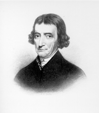 Portrait of Senator John Chandler of Maine